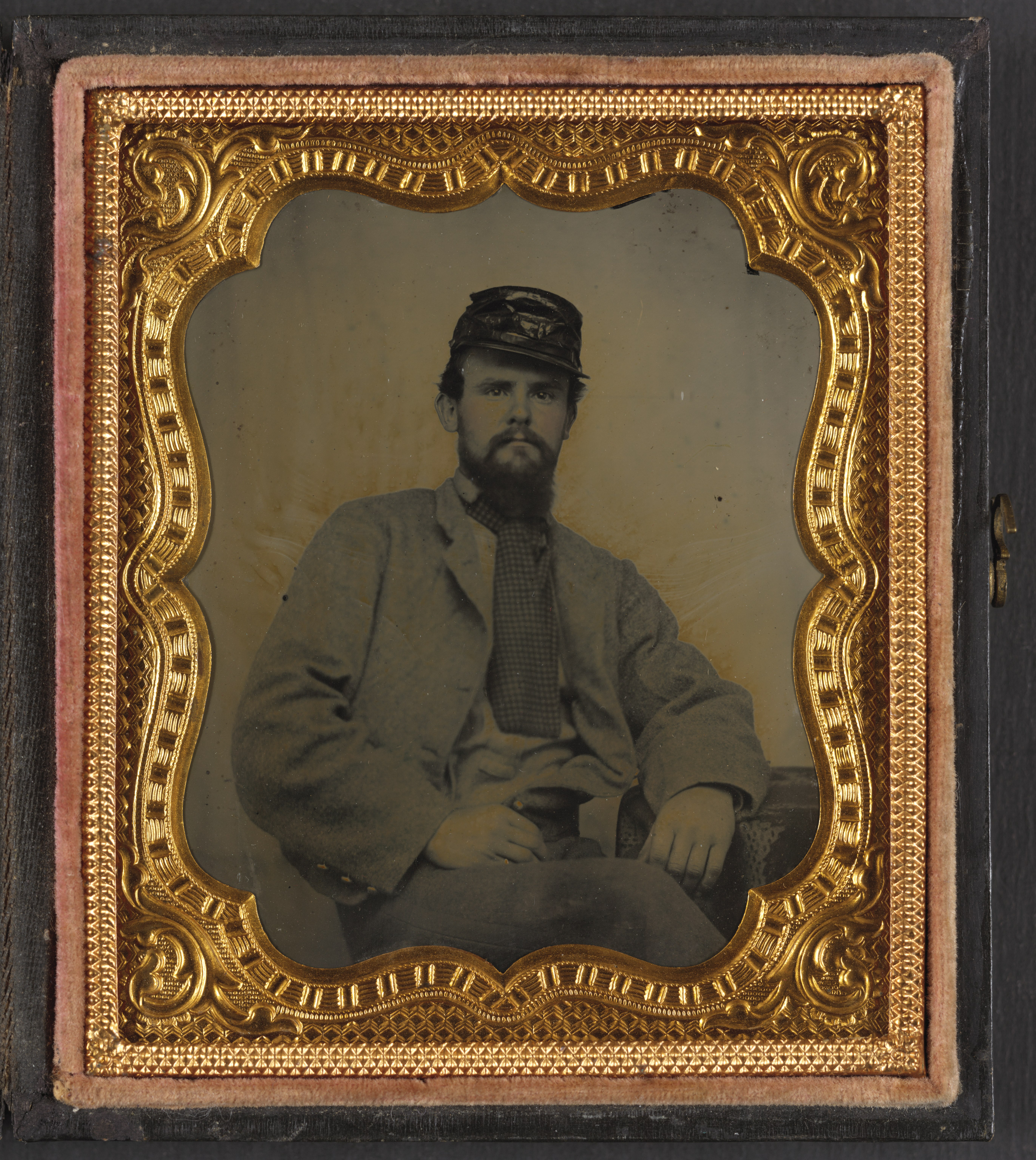 Title: Private Richard F. Bernard of Co. A, 13th Virginia Infantry Regiment, in uniform Abstract/medium: 1 photograph : sixth-plate ambrotype, hand-colored ; 9.5 x 8.4 cm (case)